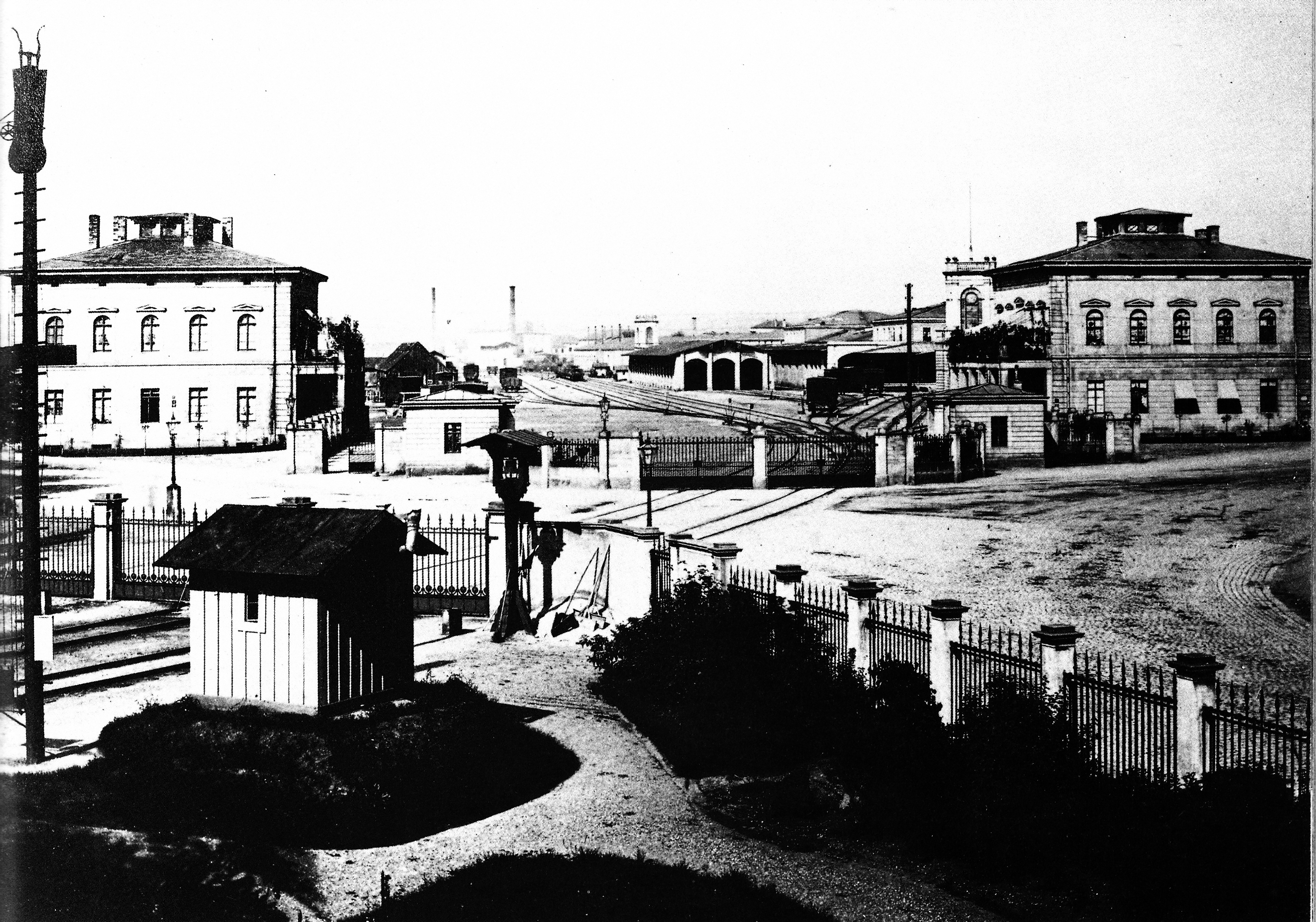 Dresden. Station Leipziger Bahnhof, 1861